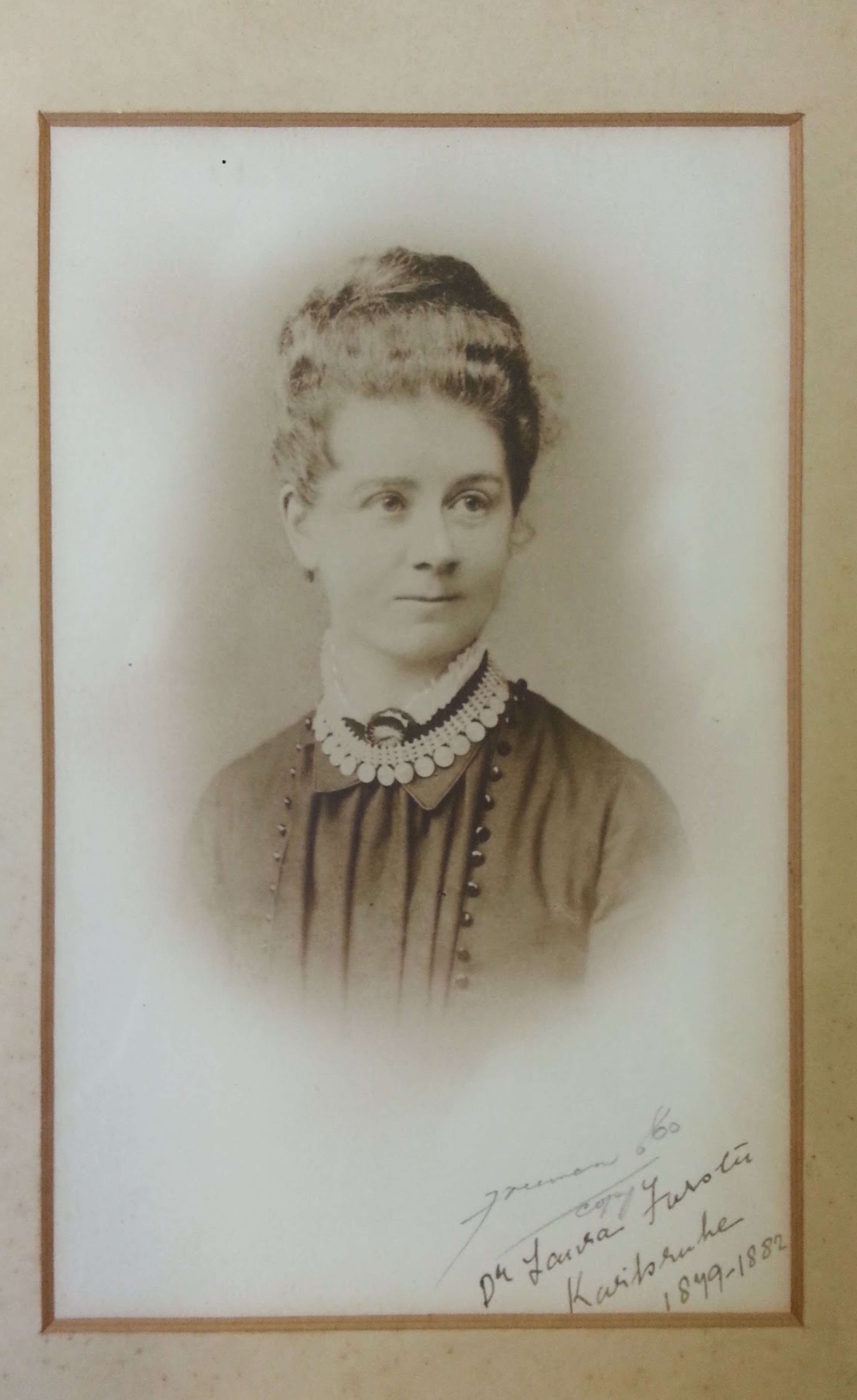 Laura E. Forster in a portrait taken at the age of 21 in Germany.